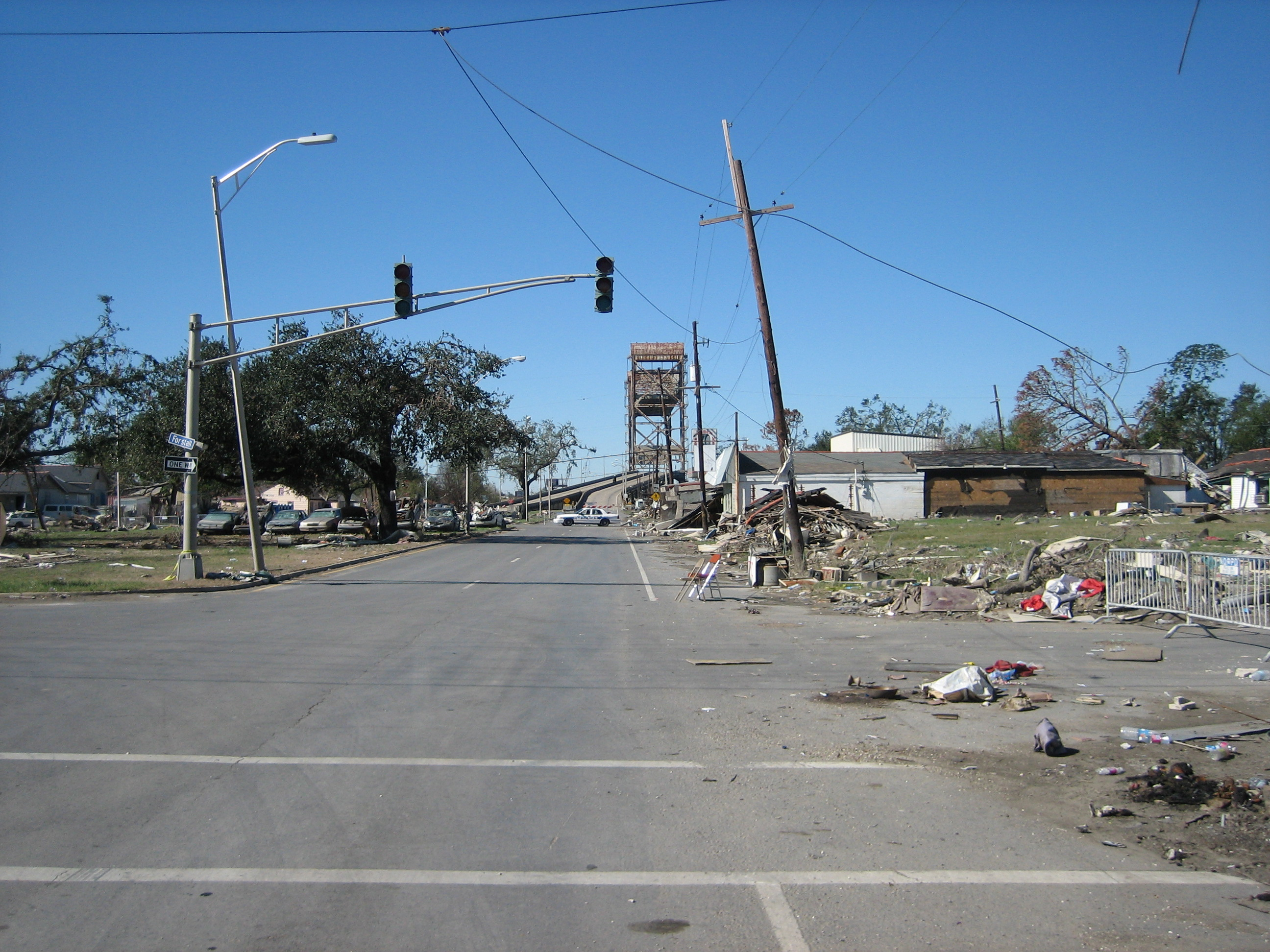 New Orleans after Hurricane Katrina: Claiborne Avenue, looking towards still closed bridge over the Industrial Canal. This normally busy throrofare is almost deserted other than police manning baricades. Flood destoyed automobiles are on the neutral ground.